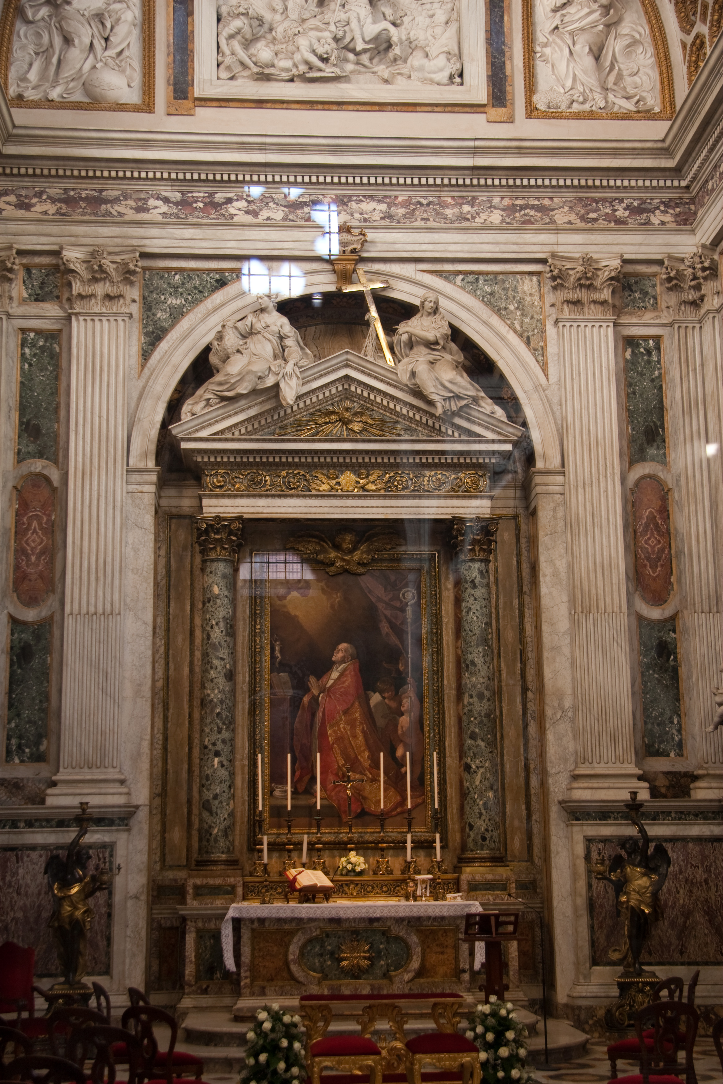 San Giovanni in Laterano is the cathedral church of Rome. 41°53′9.26″N 12°30′22.16″E / 41.8859056°N 12.5061556°E